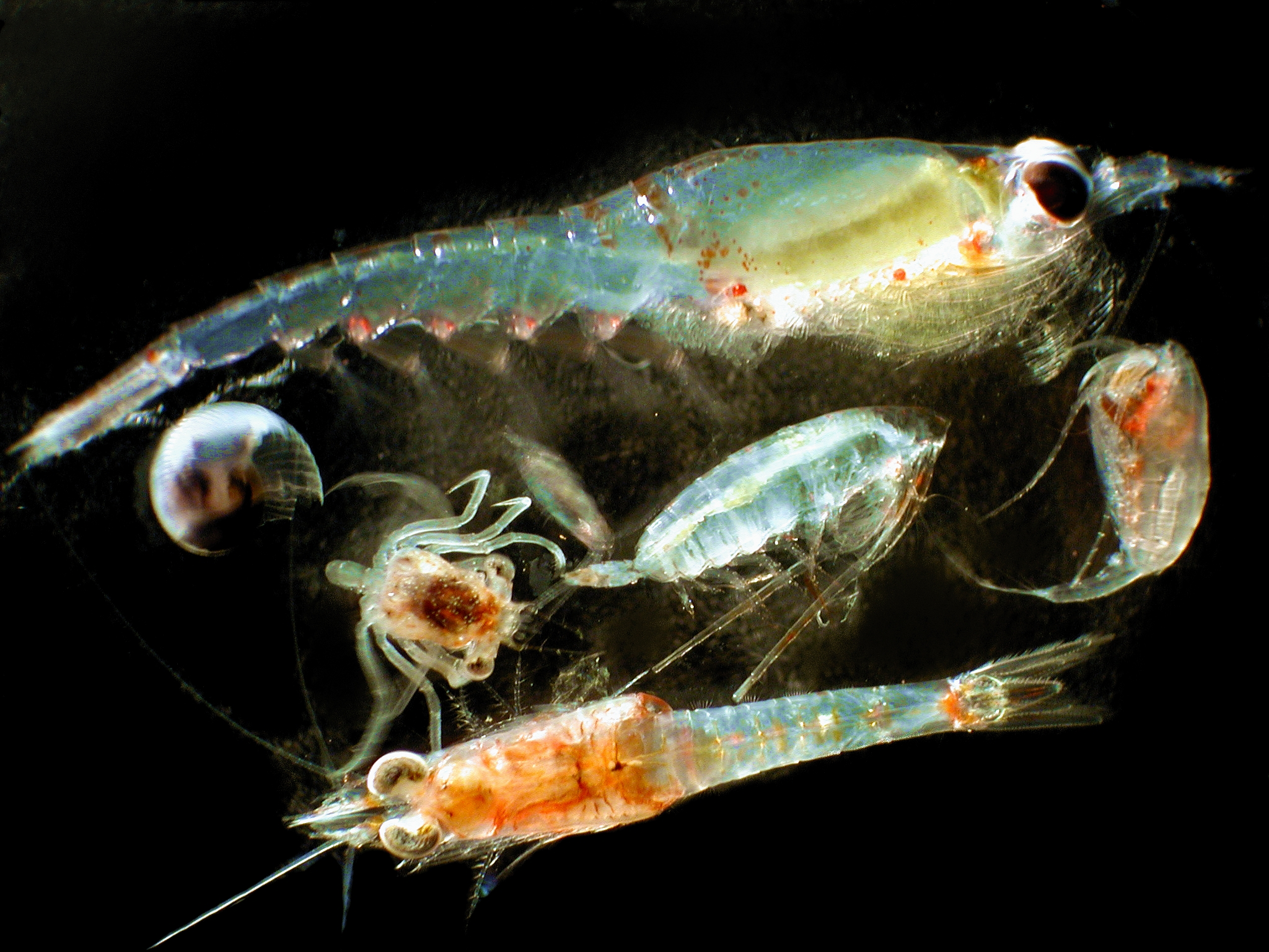 Zooplankton sample